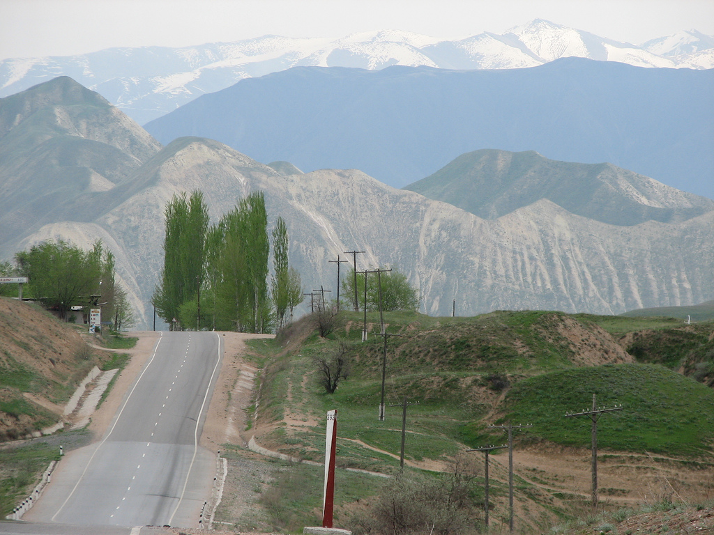 Road from Bishkek to Osh-town, Kyrgyzstan